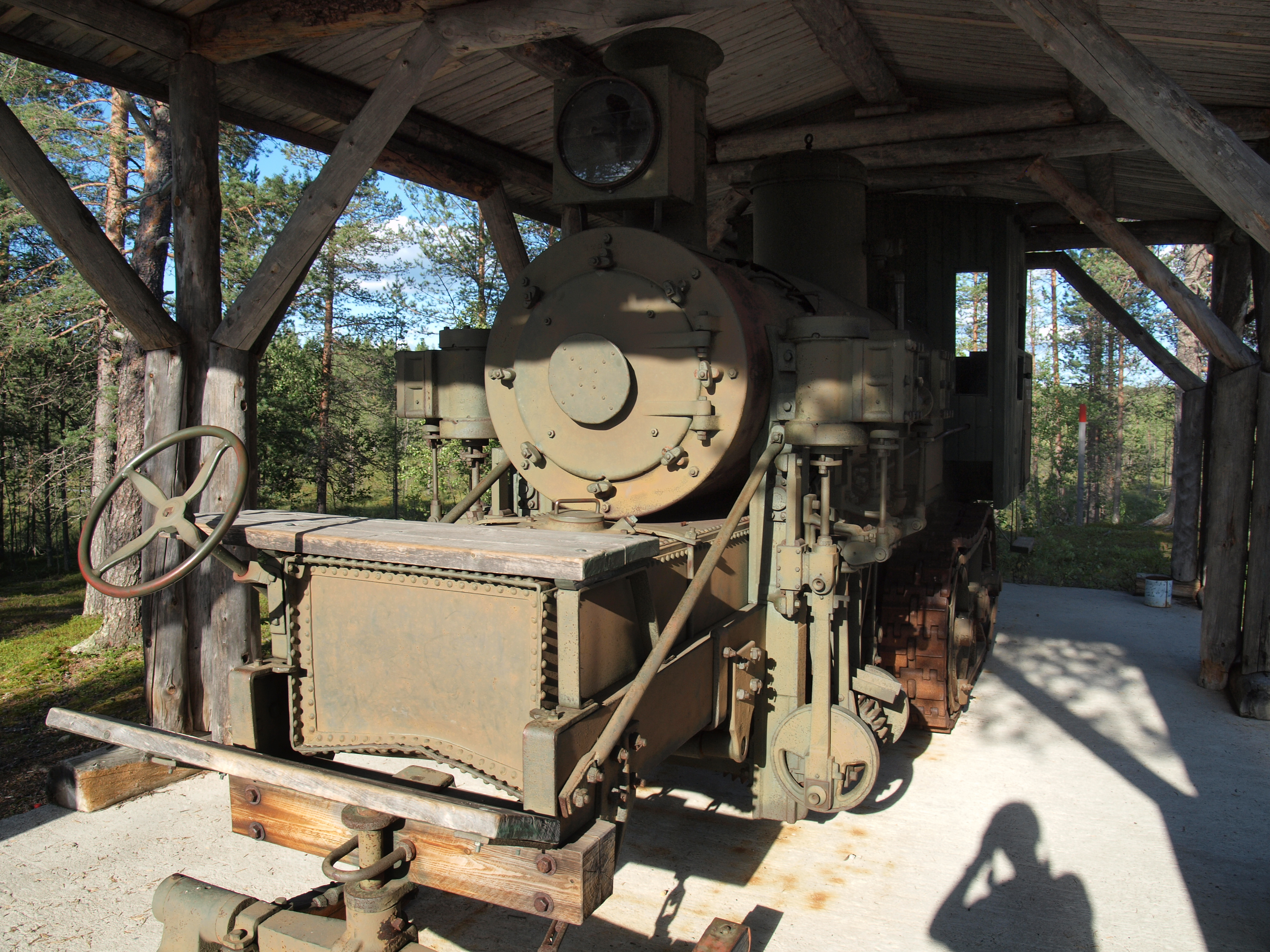 The so-called "Samperin veturi" ("Samperi locomotive"), a tread-based cargo locomotive brought from the United States to Lapland, Finland by Hugo Richard Sandberg (hence the name) in the early 1910s. The locomotive is now a museum exhibit in Tulppio, Savukoski, Finland.